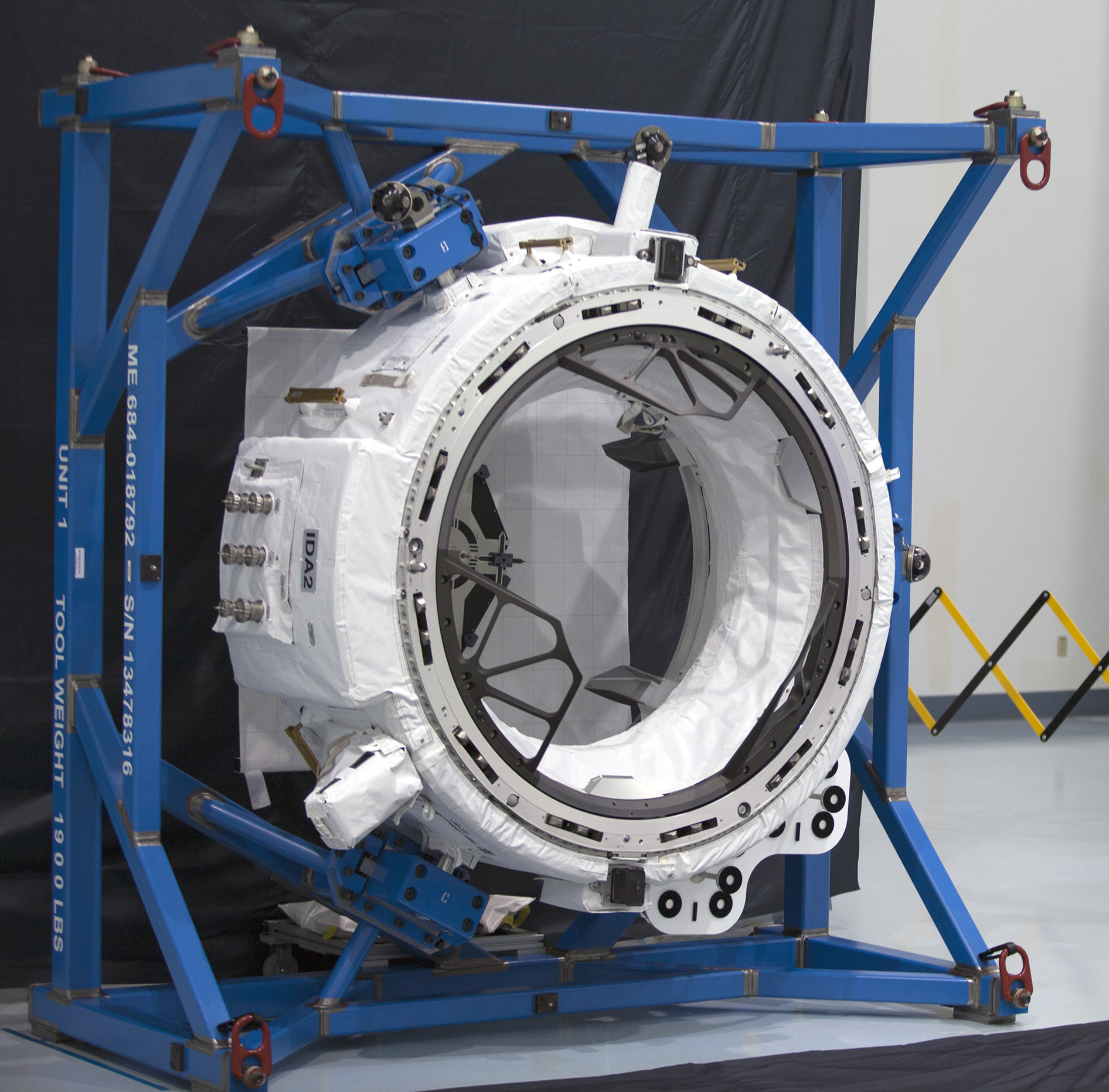 None.